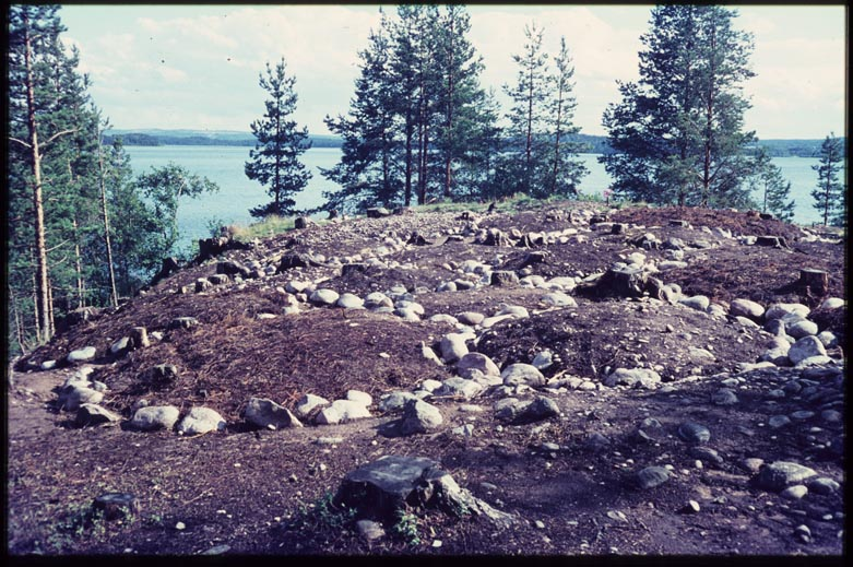 The Necropolis on Vindförberg peninsula by lake Oresjön, Dalarna, Sweden